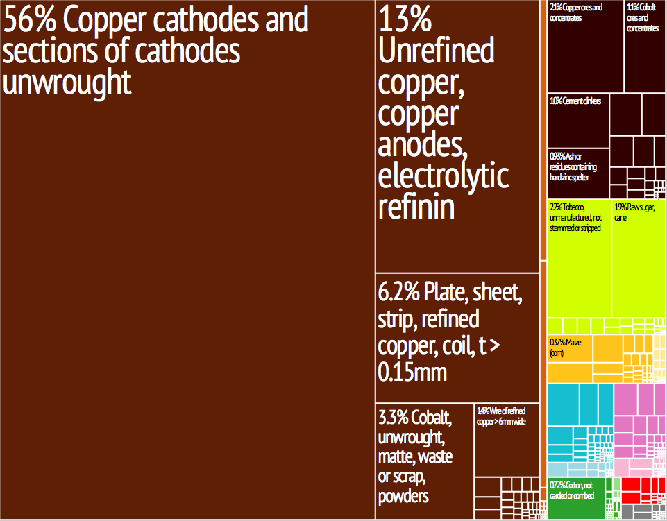 Zambia Export Treemap from MIT Harvard Economic Complexity Observatory